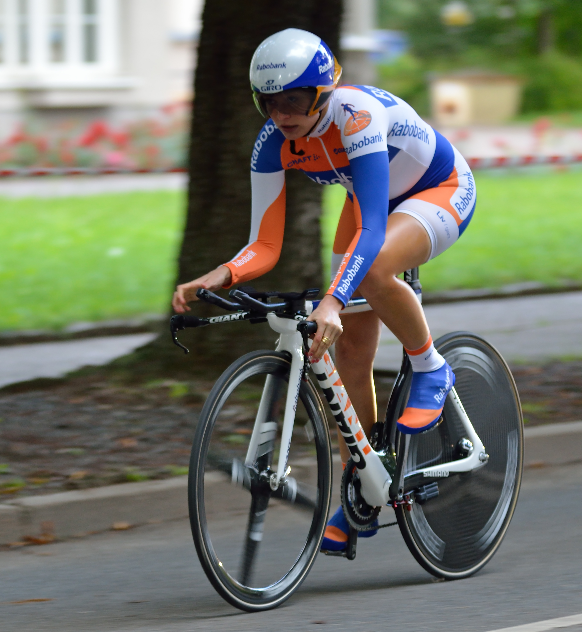 Roxane Knetemann from the Rabobank Women Cycling Team during the Women's Tour of Thuringia 2012 in Zwickau, Germany.